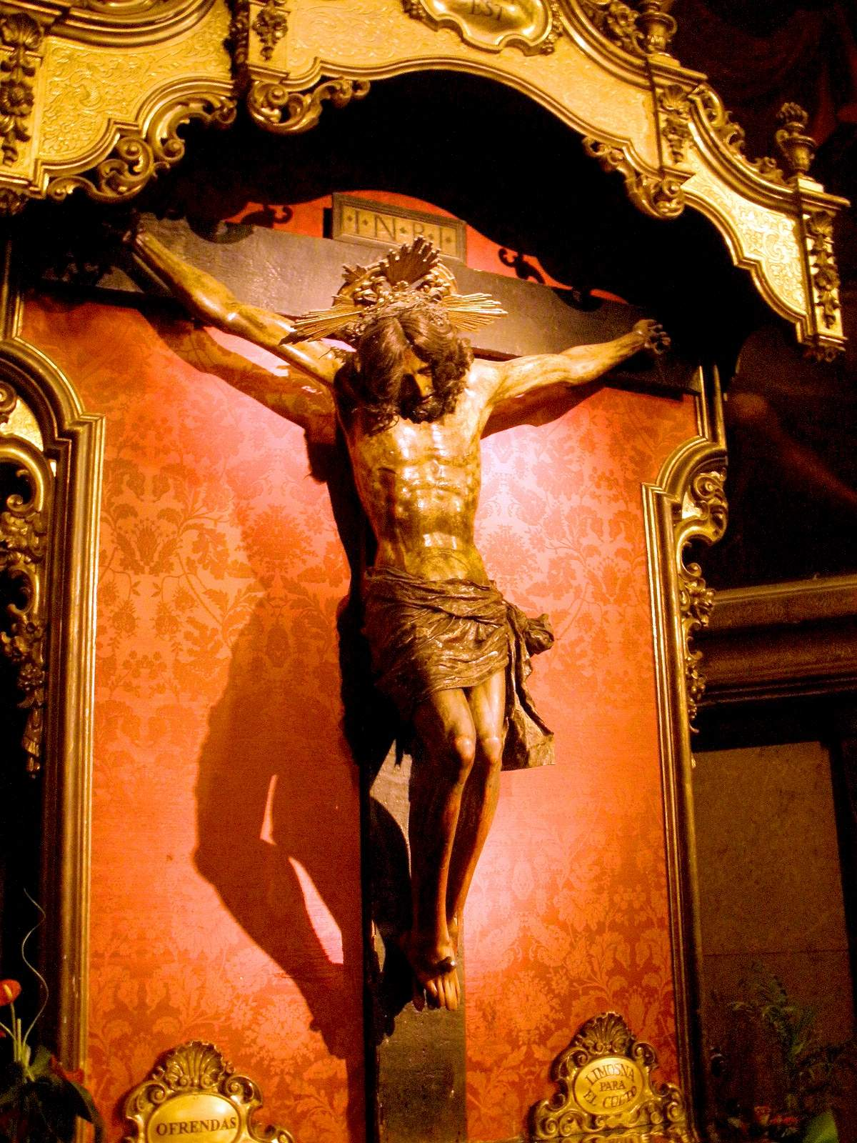 Santo Cristo del Pilar, en la Capilla de San Juan Bautista de la Basílica del Pilar de Zaragoza